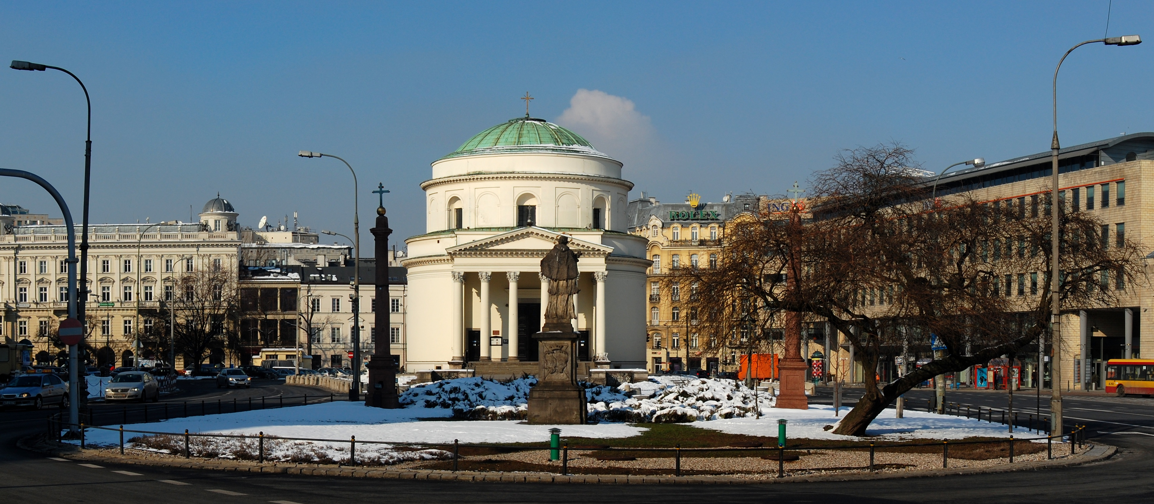 Three Crosses Square in Warsaw, Poland.